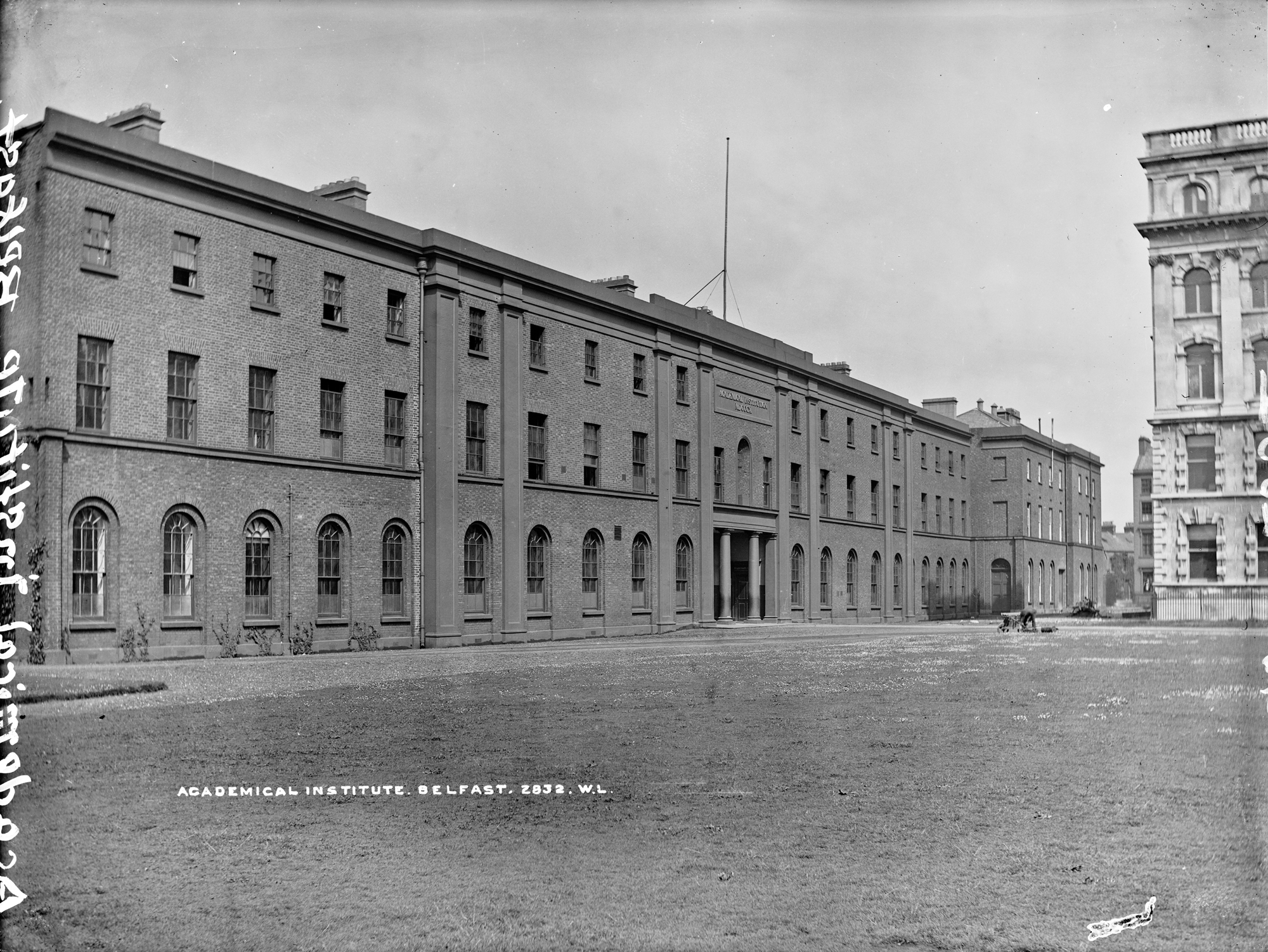 From an ancient plaque on a wall in Galway to a celebrated centre of learning in Belfast to start the week! An imposing if architecturally bland building houses the Belfast Academical Institute better known as "Inst"! Photographer: Robert French Collection: The Lawrence Photograph Collection Date: Between circa 1865 and 1914 NLI Ref: L_ROY_02832 You can also view this image, and many thousands of others, on the NLI’s catalogue at